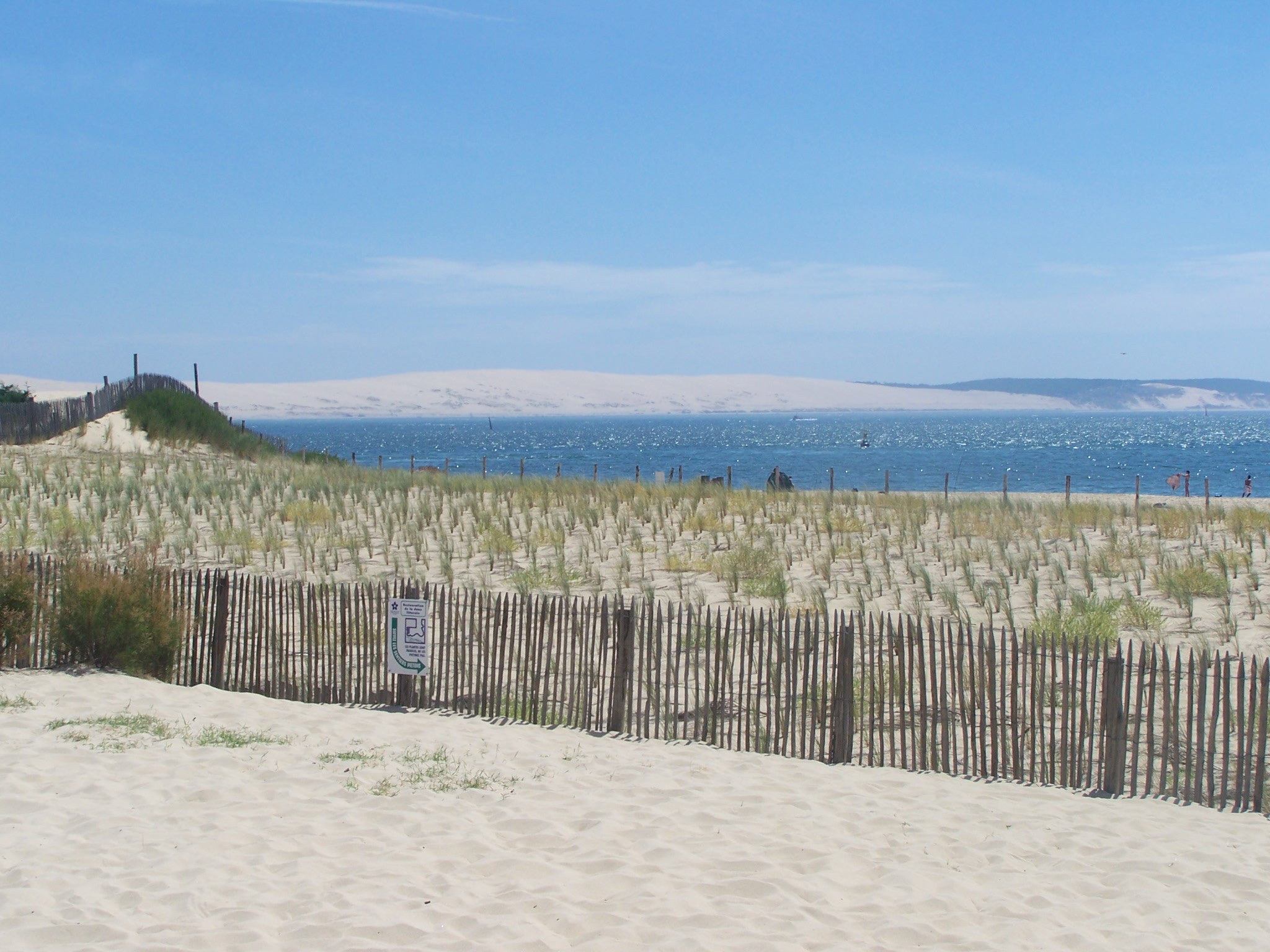 View on the Dune du Pilat (or Dune du Pyla) from the Cap Ferret peninsula, in the French department of Gironde.